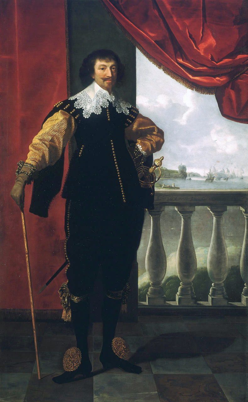 Contemporary portrait of Robert Rich, 2nd Earl of Warwick (1587-1658)